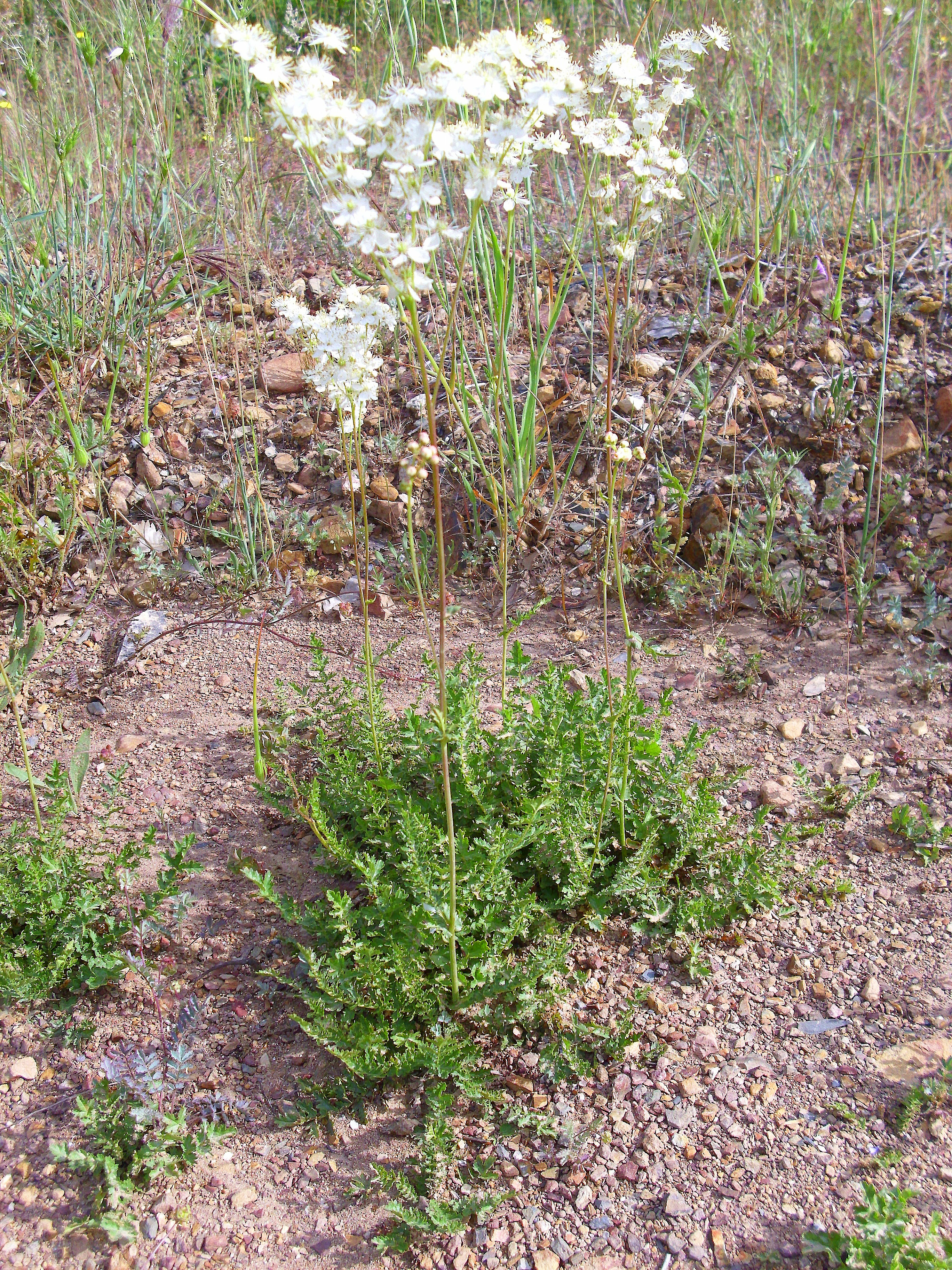 Filipendula vulgaris habit, Valderrepisa Sierra Madrona, Spain